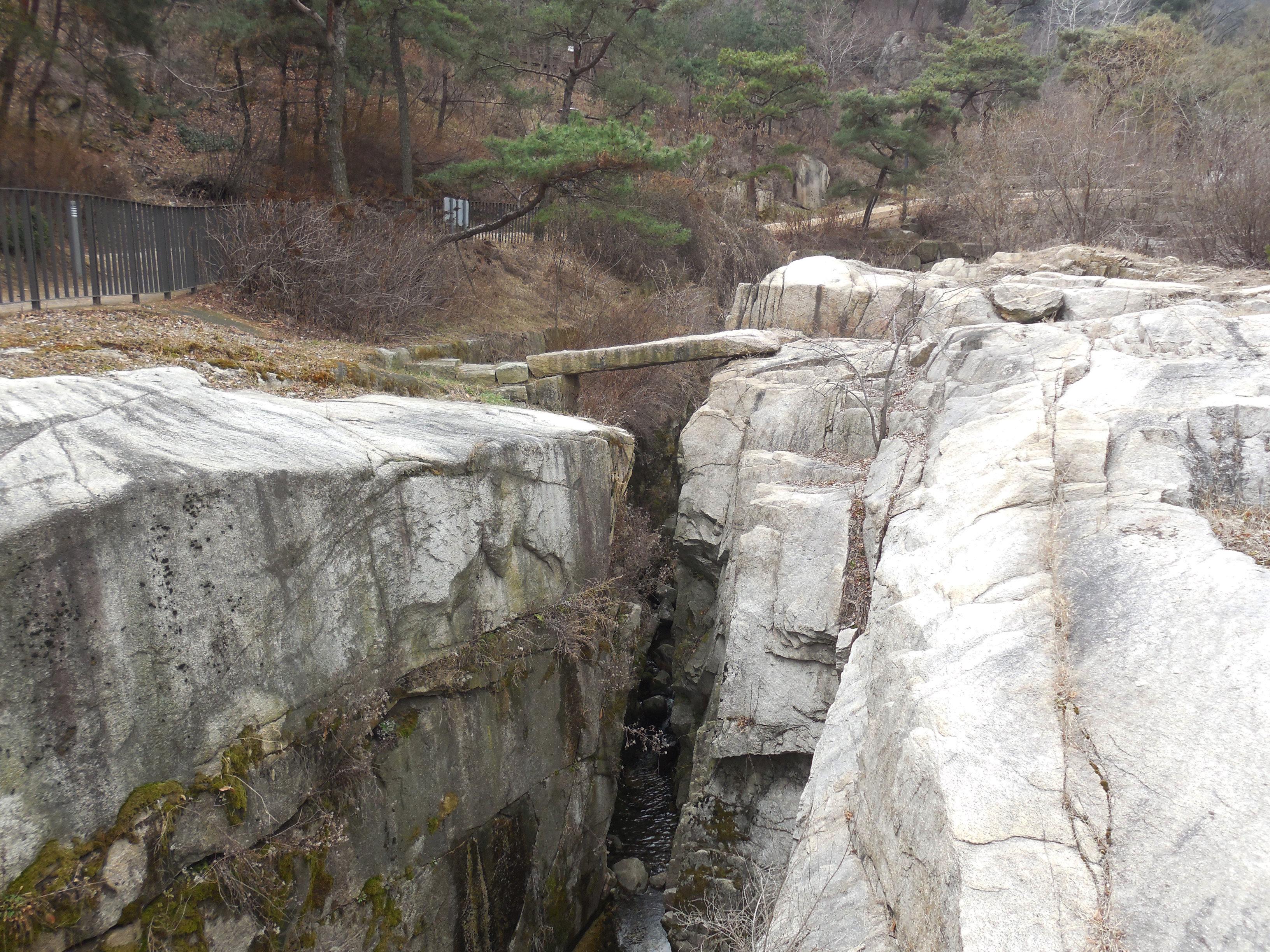 Giringyo Bridge from Joseon Dynasty, at Ogin-dong, Jongno-gu, Seoul.